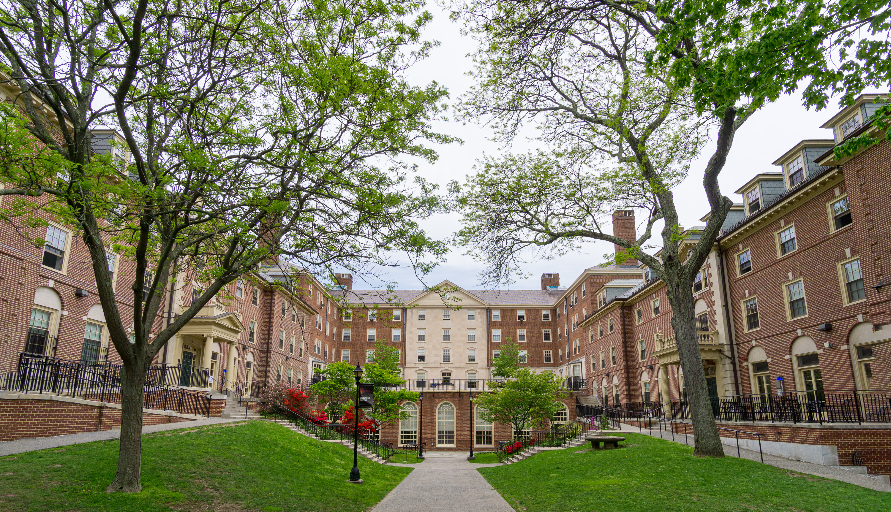 Left to right: Metcalf Hall (1919); Andrews Hall (1947, Thomas Mott Shaw); Miller Hall (1910, Andrews, Jacques and Rantoul of Boston).